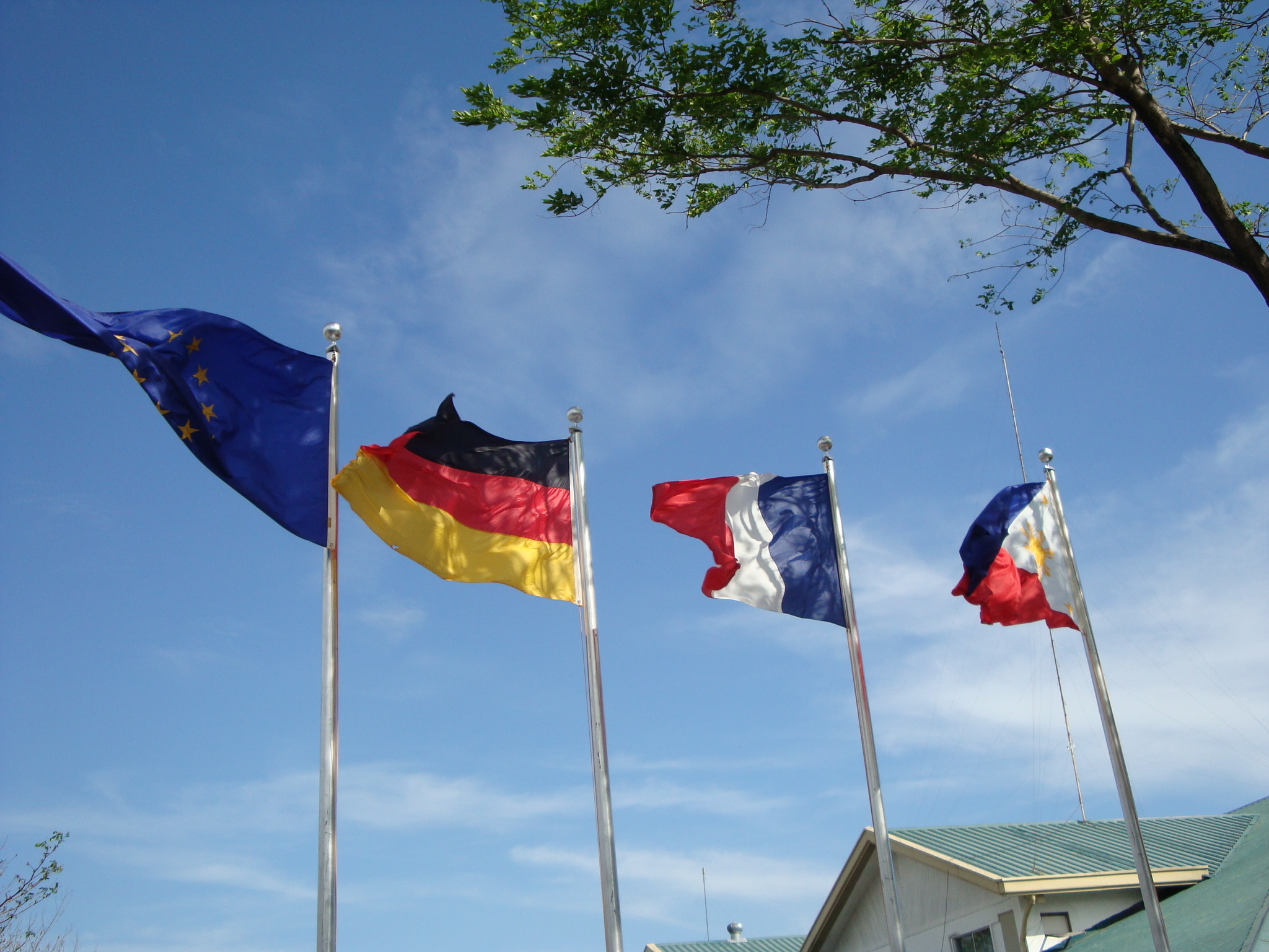 Four flags hoisted at the European International School.